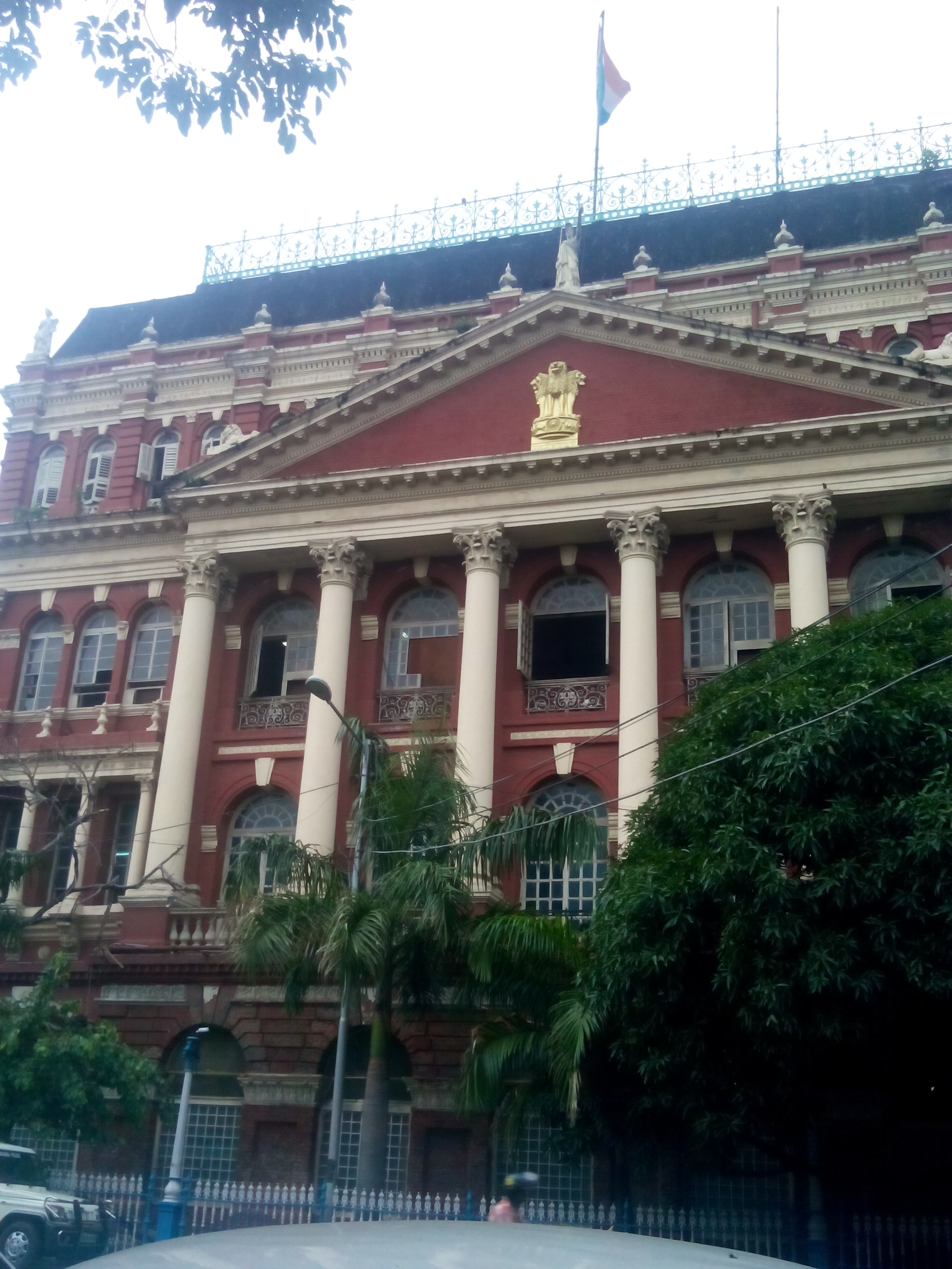 Writers bulding in Kolkata